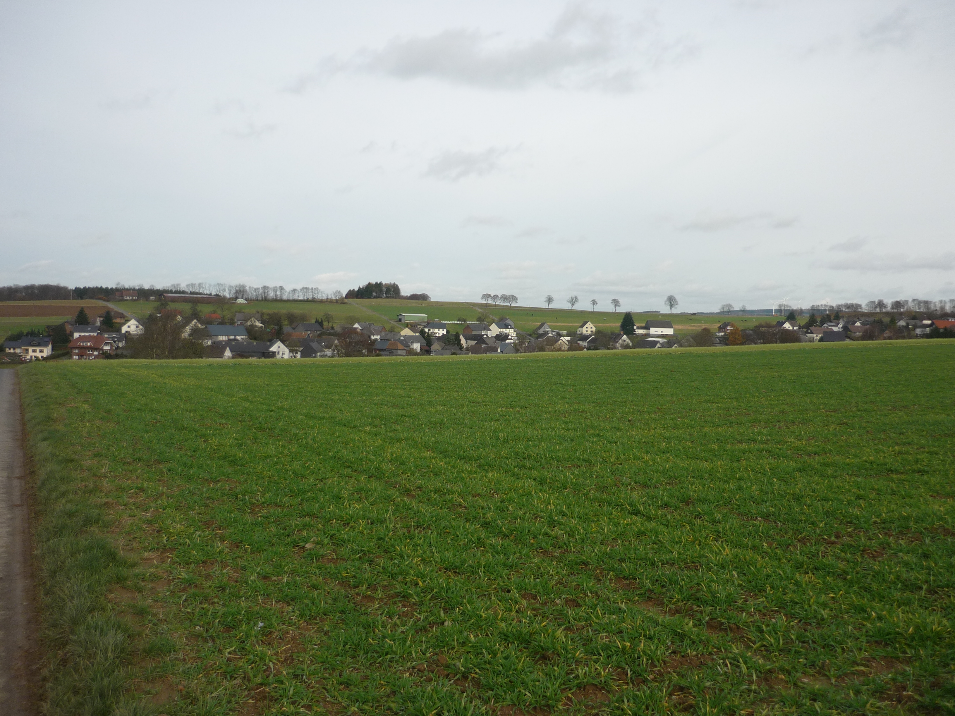 Giesenhausen Westerwald